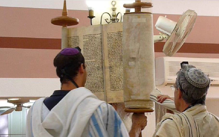 raise of the Scroll of the Torah.